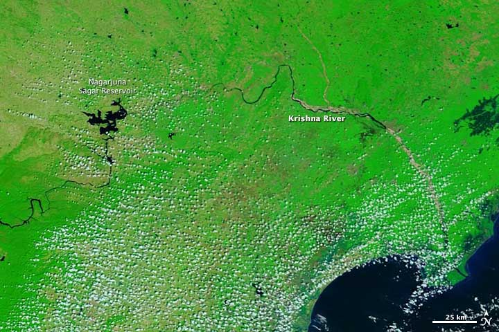 The image, taken by Terra MODIS on October 27, 2012, shows normal conditions for River Krishna at this time of year. The images combine visible and infrared light so that water is black and dark blue, clouds are light blue and white, and plant-covered land is bright green. The Nagarjuna Sagar Reservoir visible in the image is part of a hydroelectric power and irrigation project credited with Green Revolution in India; it also is one of the earliest multi-purpose irrigation and hydro-electric projects in India. The Krishna River is the third longest river in India after the Ganges and the Godavari. It starts in Western Ghats, flows through Karnataka and Andhra Pradesh.